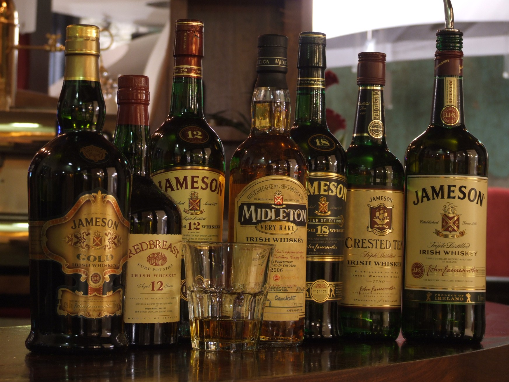 Jameson Irish Whiskies